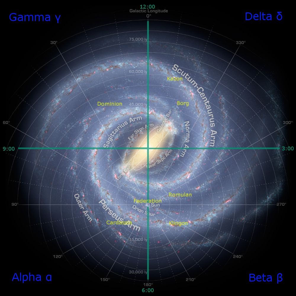 This is an image of the Milky Way Galaxy from NASA that has been overlaid with the Star Trek view of the galaxy. Names in yellow show the locations of the major fictional political groups in the Star Trek universe. Creation of this image was aided with information from the Canadian Galactic Plane Survey and . Feel free to contact User:Codehydro at the English wikipedia if there are any inaccuracies.